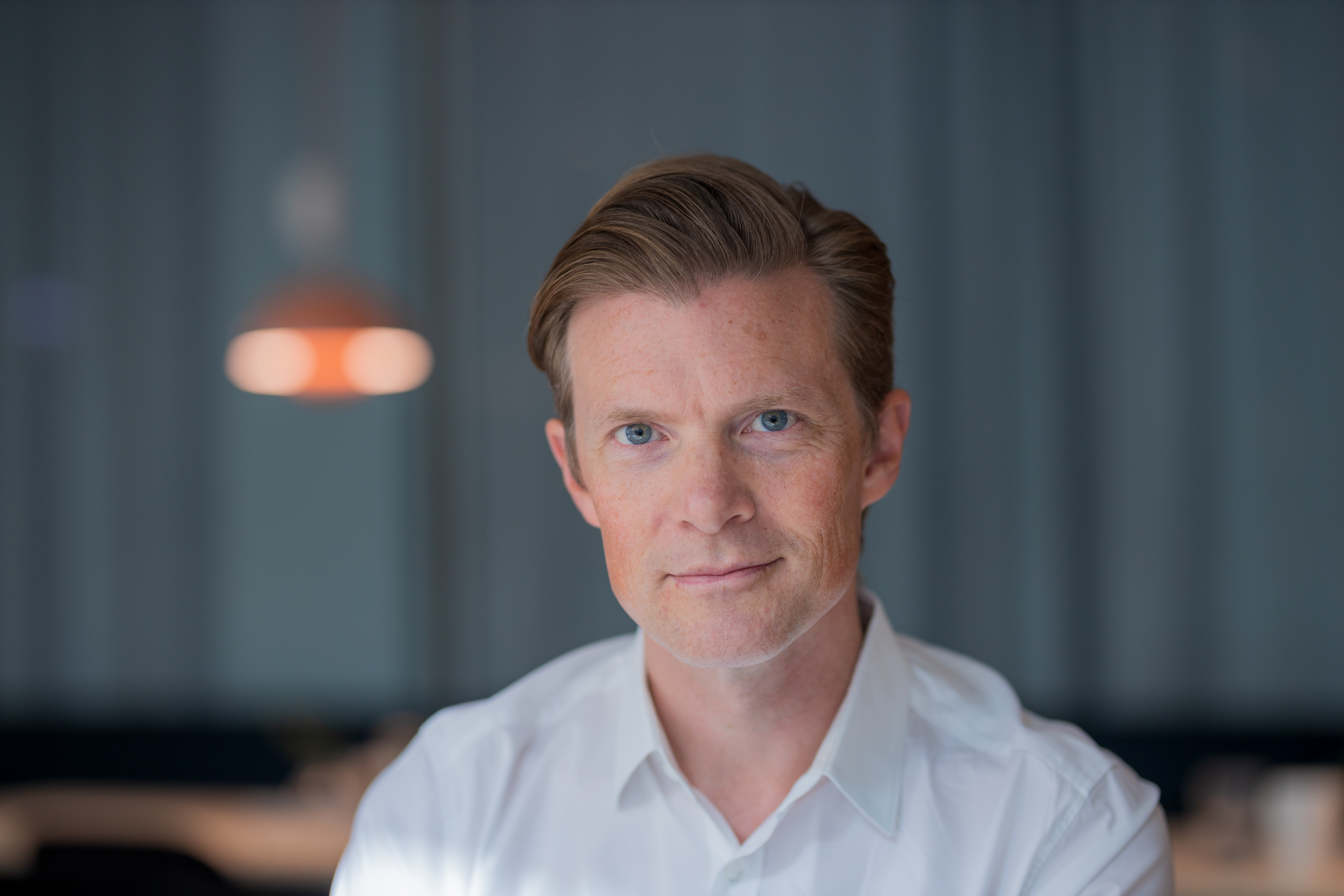 Swedish author and historian of ideas, Seinor Fellow at libertarian think tank Cato Institute. Picture taken in the break room of Swedish daily newspaper Svenska Dagbladet, on August 15, 2019.